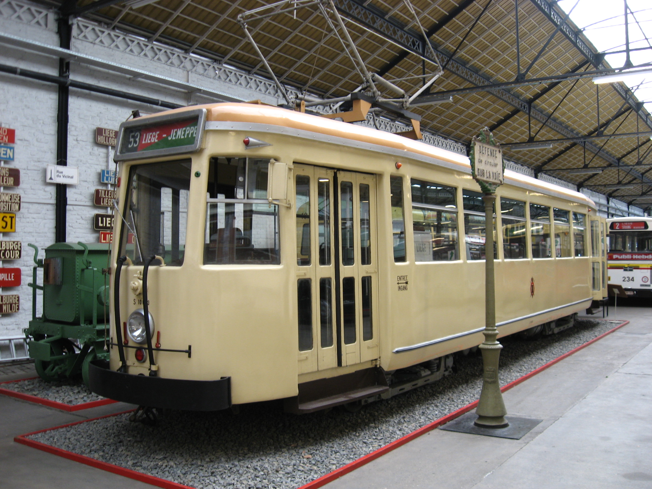 SNCV tram type "S" for the line 53 in Liége in the Museum